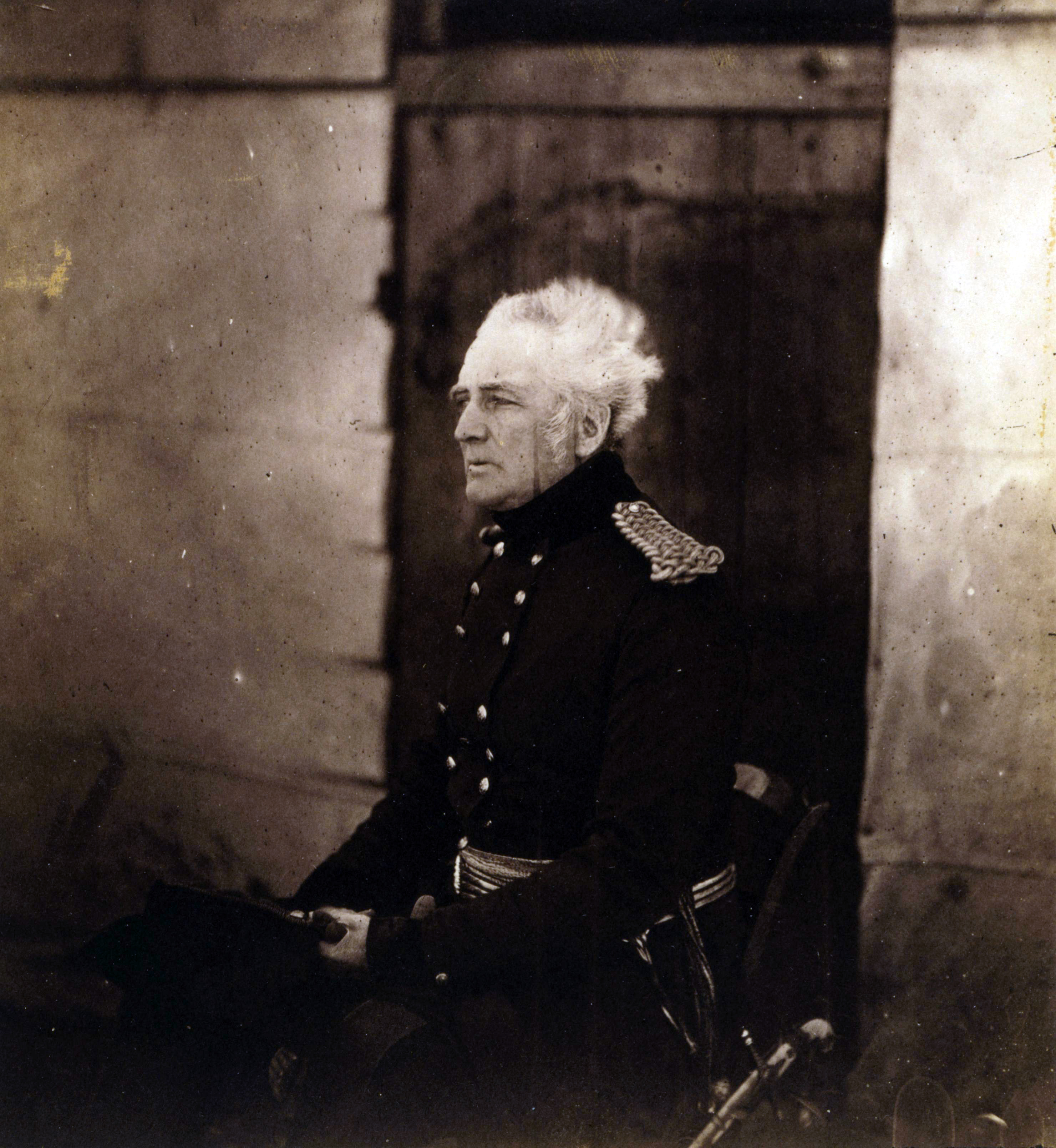 Sir George Brown, three-quarter portrait, seated facing left.